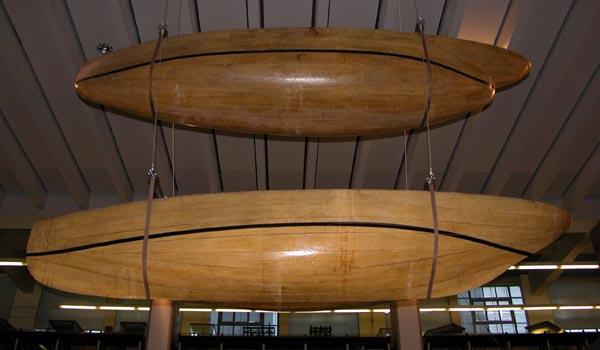 Boat models by William Froude. The hulls of Swan (above) and Raven (below) on display in the Science museum, London. A sequence of 3, 6 and (shown in the picture) 12 foot scale models constructed by Froude and used in towing trials to establish resistance and scaling laws. Raven's sharp prow followed the "waveline" theory of John Scott Russell, but Swan's blunter profile proved to offer lower resistance.